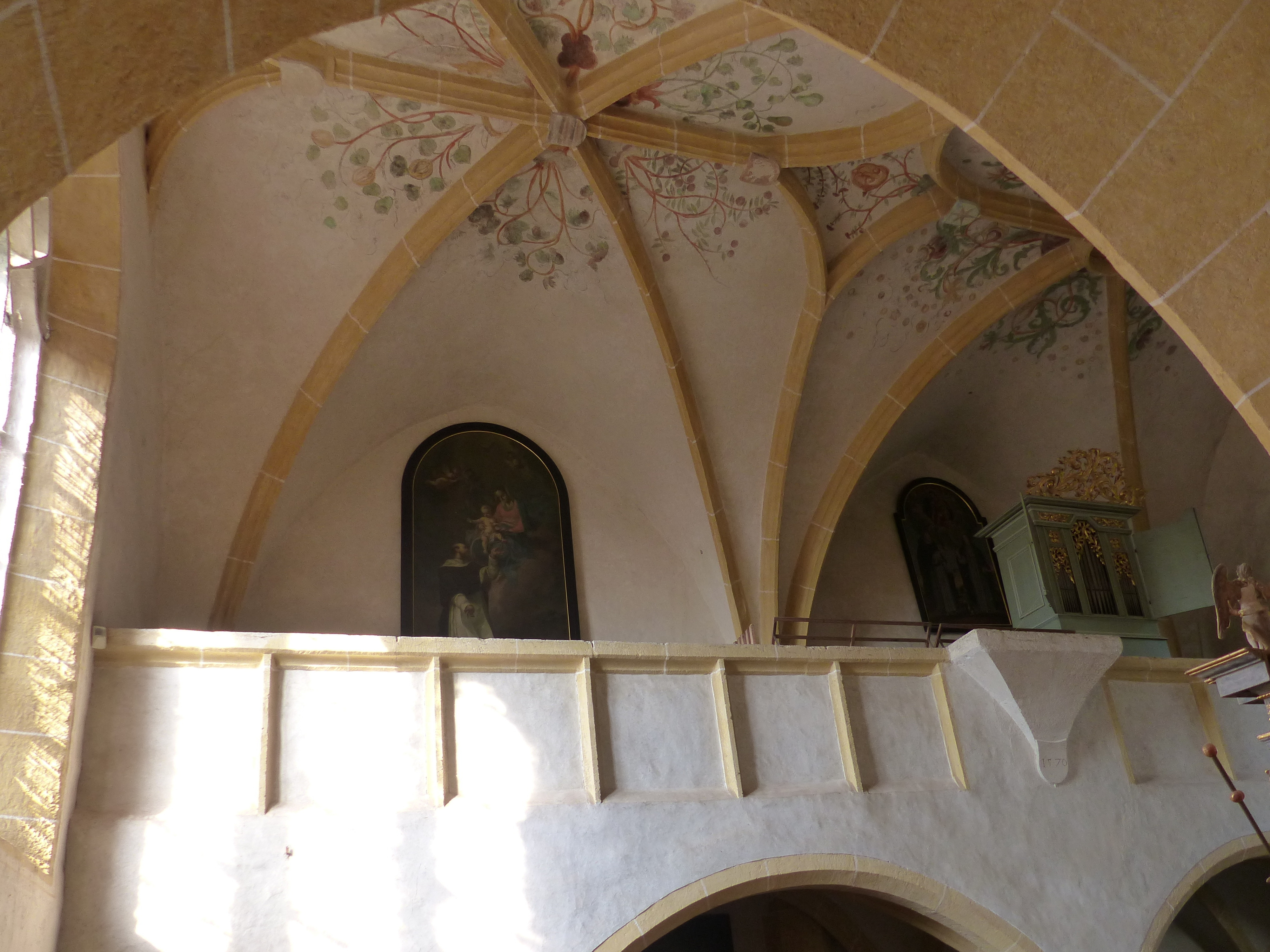 Rust ( Burgenland ). Saints Pancras and Giles chiurch - so called "Fishermen's church" ( 1400 ): interior - Southern aisle ( 16th century ) connecting the chapel of Saint Pancras with Mary's chapel.